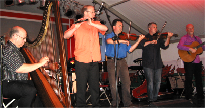 Crasdant performing at the InterCeltic Festival at Lorient, Brittany in August 2008.